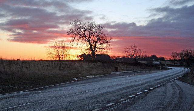 Cadgers Burn Winter sunrise over the A696 at Cadgers Burn.